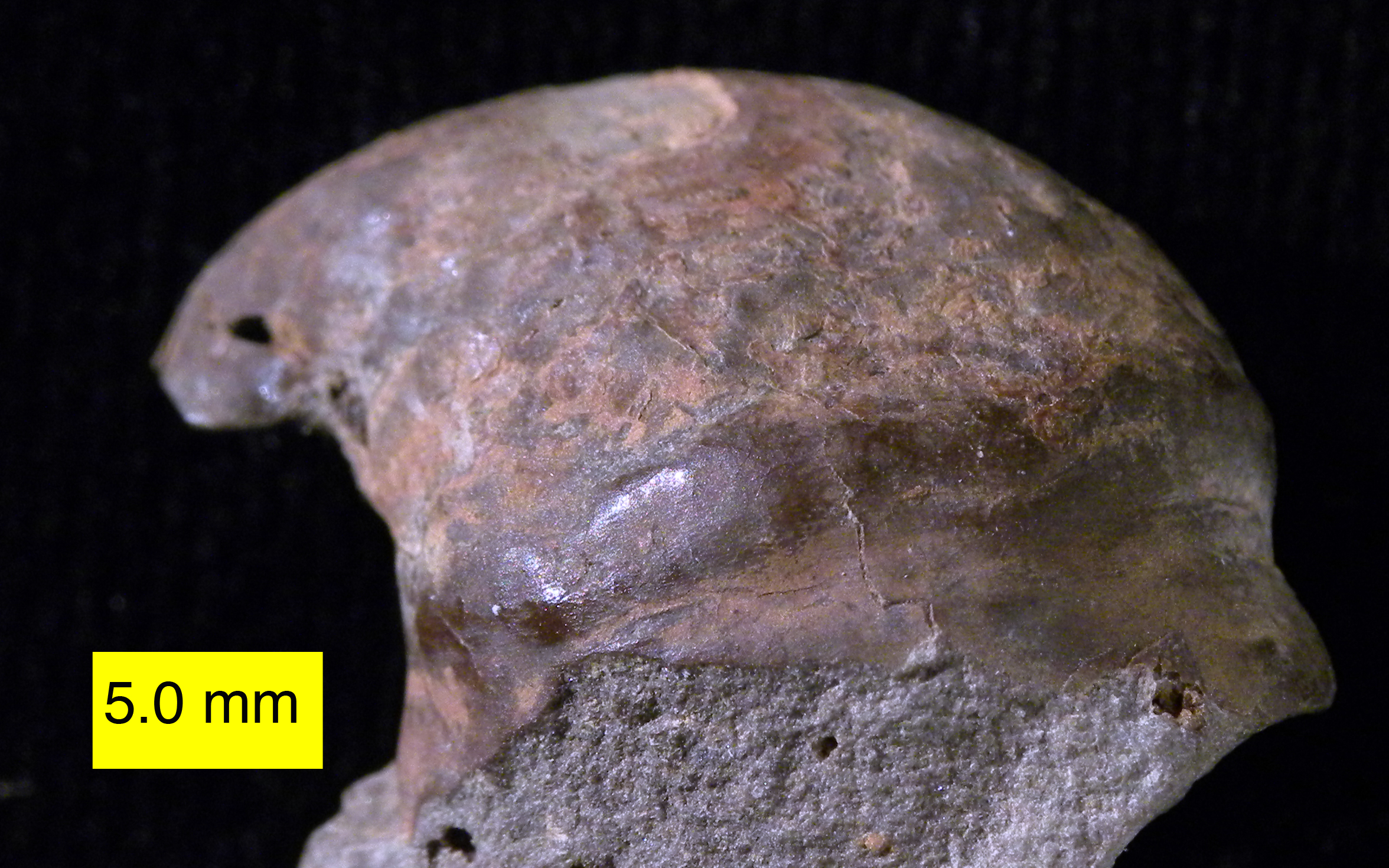 Platyceras pulcherrimum from the Logan Formation (Mississippian) of Wooster, Ohio.